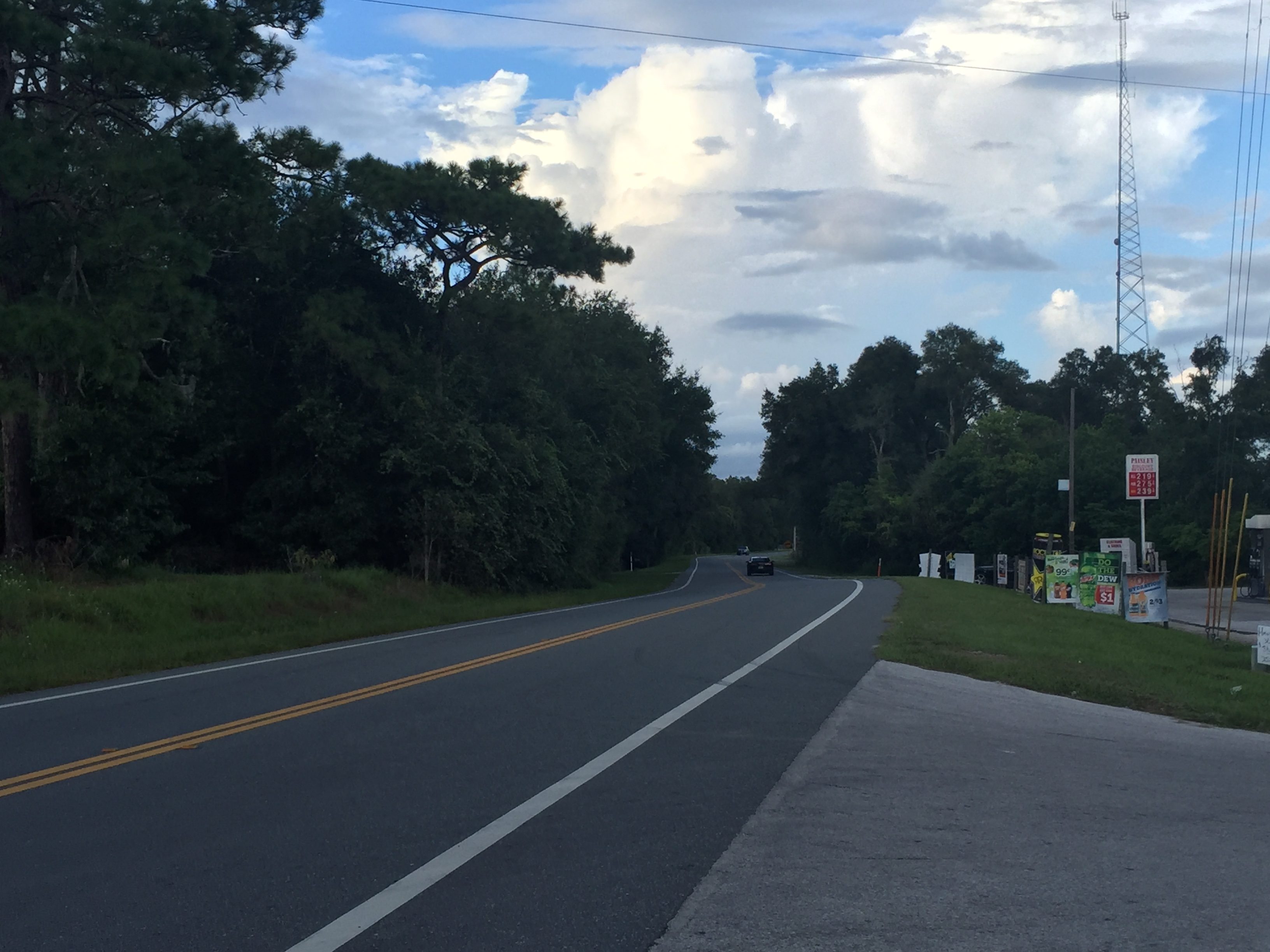 Paisley, Florida, on September 15th, 2016. Looking east on SR 42.